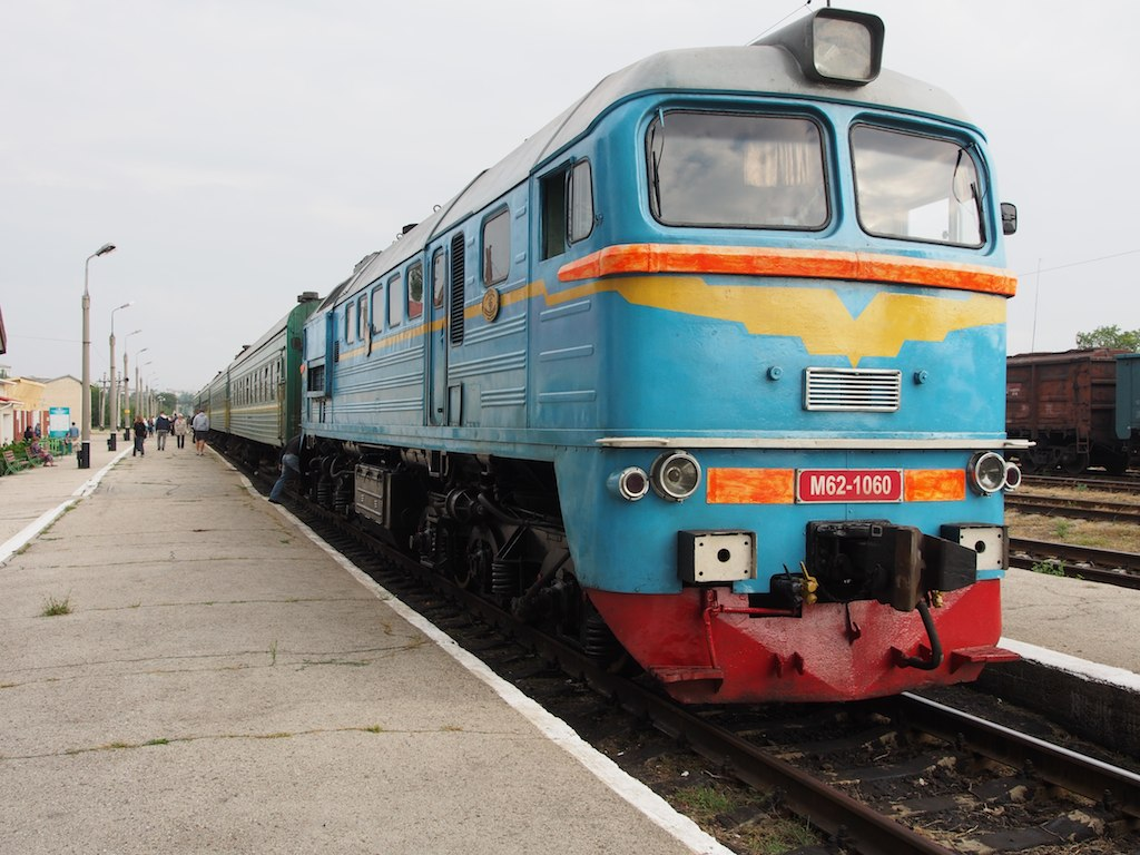 Chisinau to Odessa train arriving Bender Transnistria